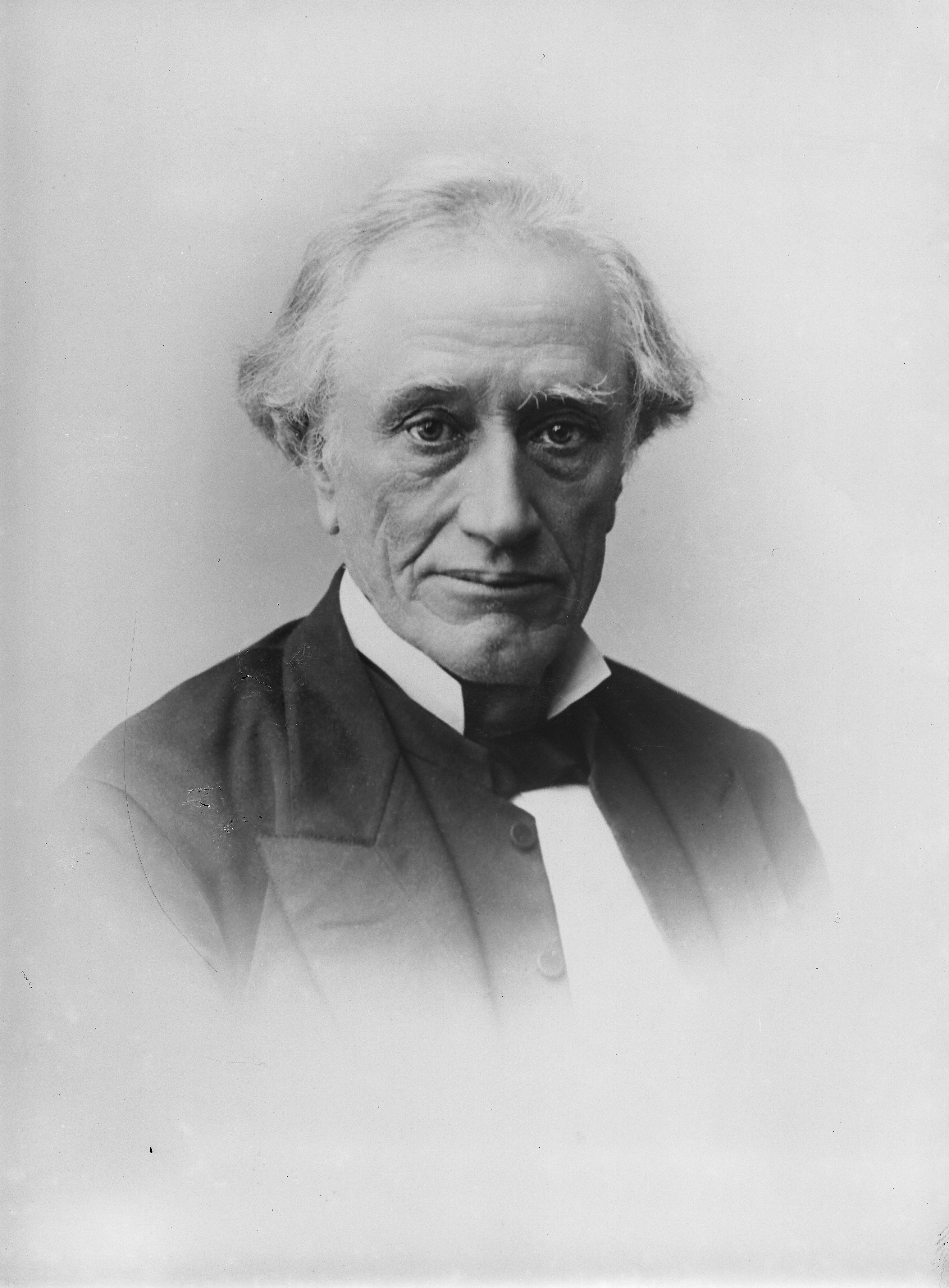 Portrait of Christopher William Richmond